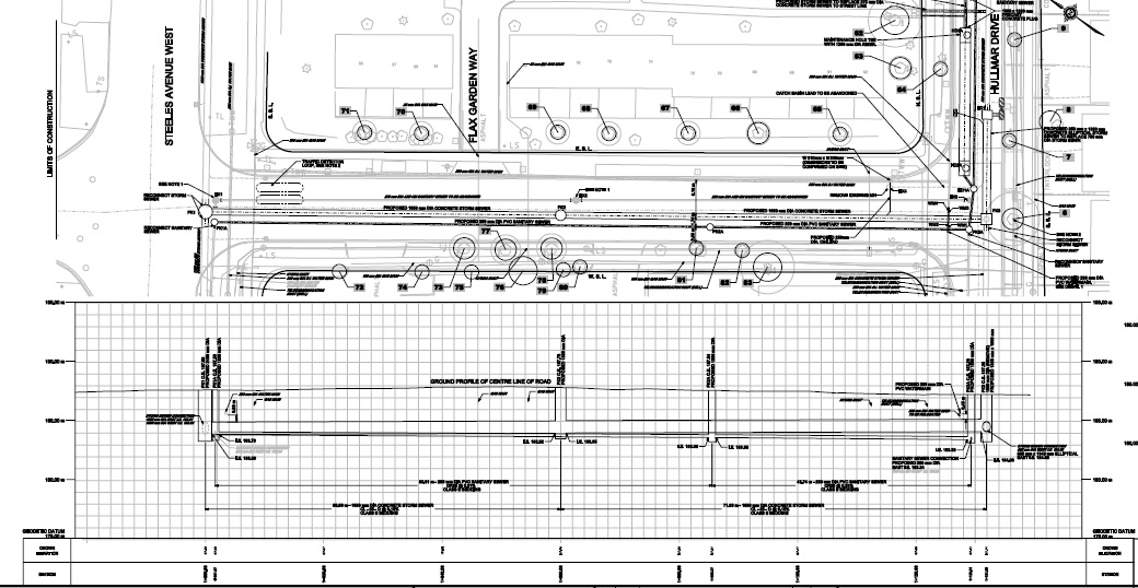 Example of Sewer Works Design - Plan and Profile